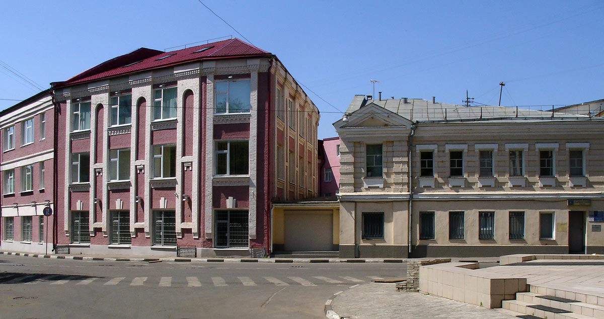 Marksistsky Lane, Moscow